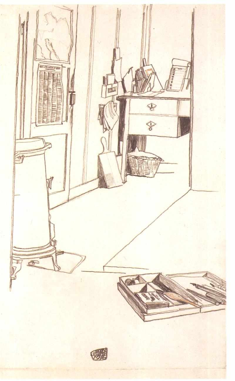 Office in the prisoner of war camp in Mühling